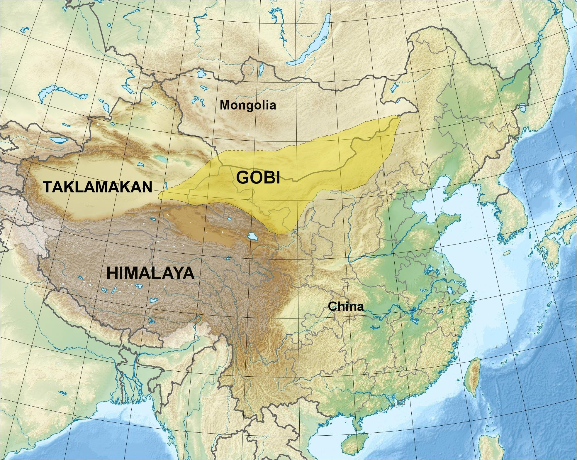 Gobi Desert. Taklamakan Desert.